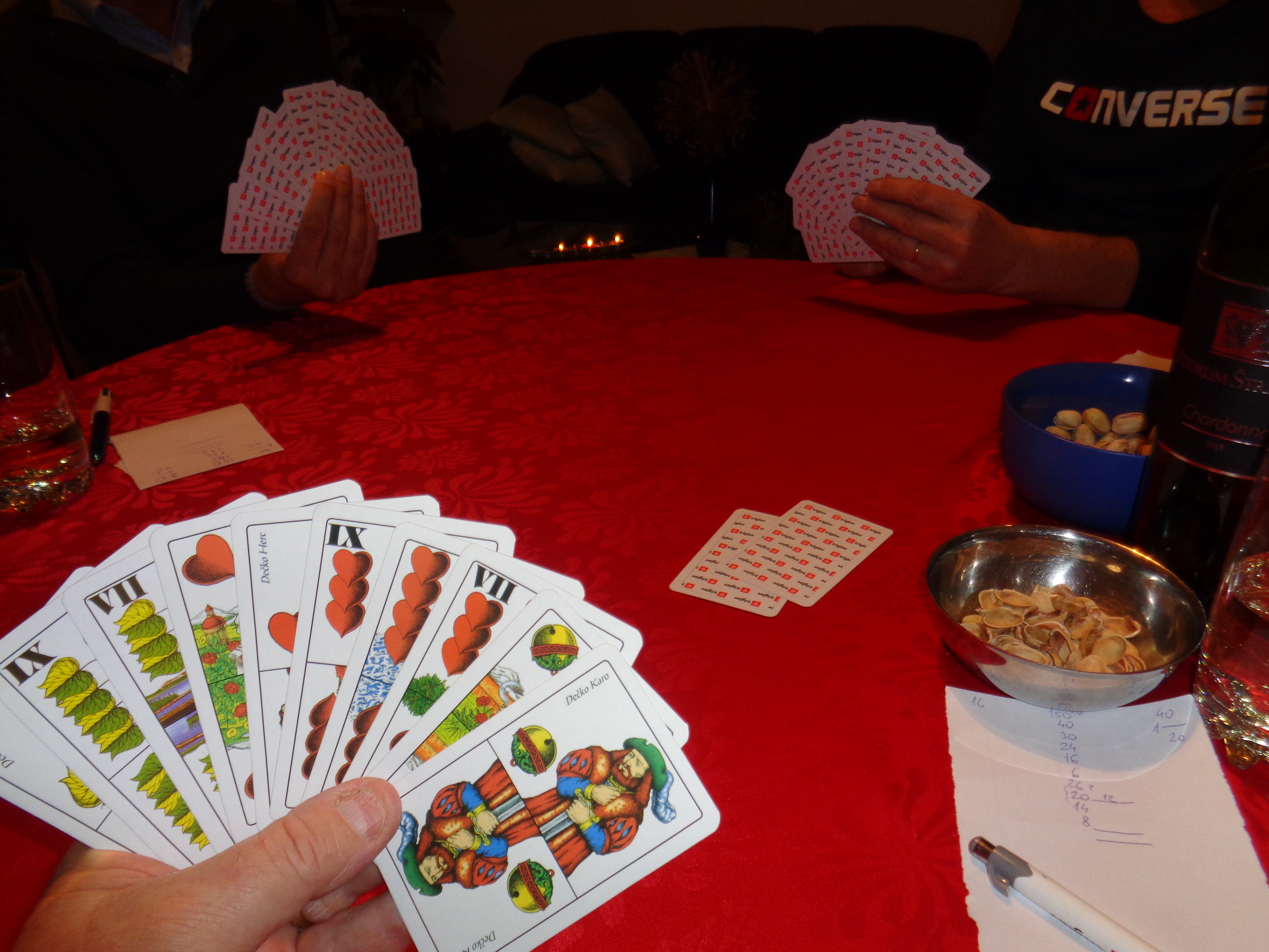 People playing preferans, Croatian version of Préférence card game